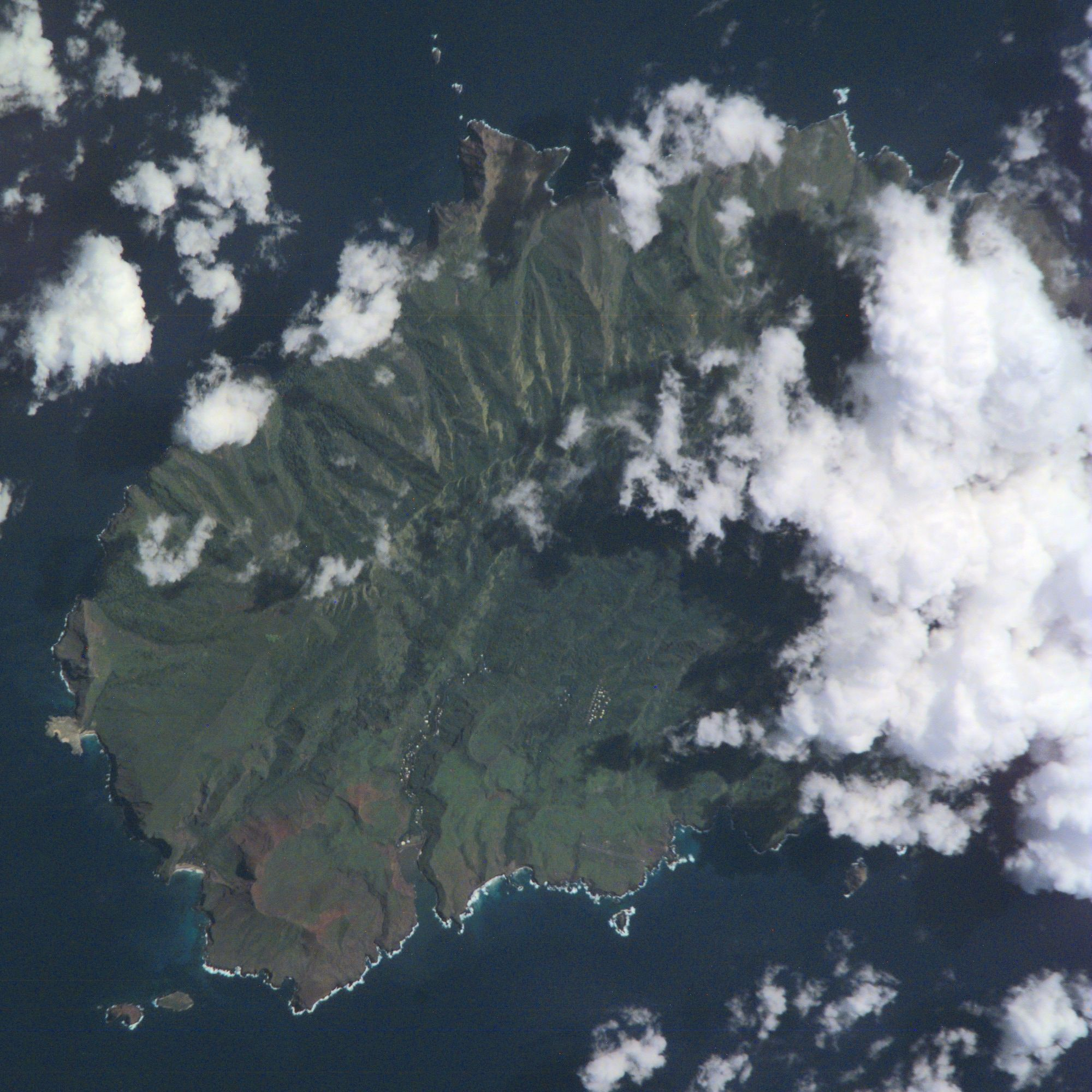 NASA astronaut image of Ua Huka, Marquesas Islands, French Polynesia